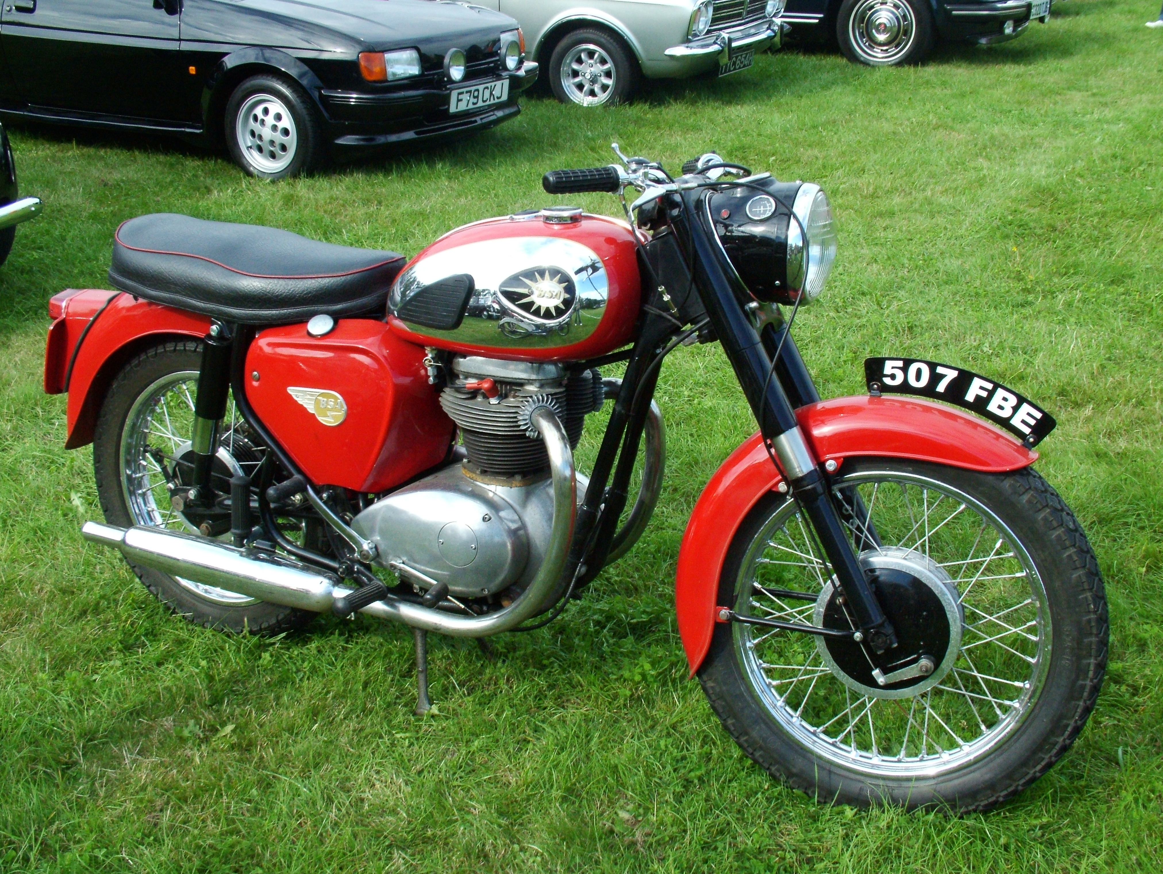 1963 BSA A65 650 Unit Twin